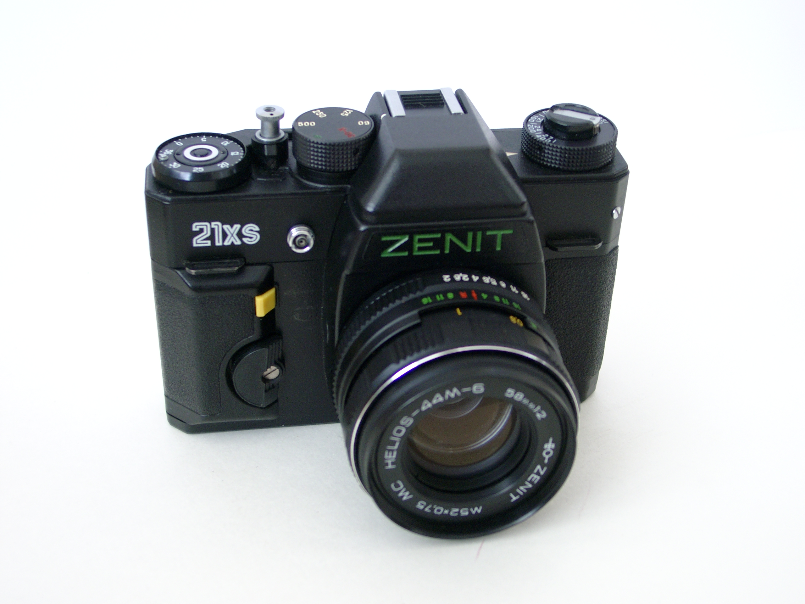 Zenit 21 XS camera